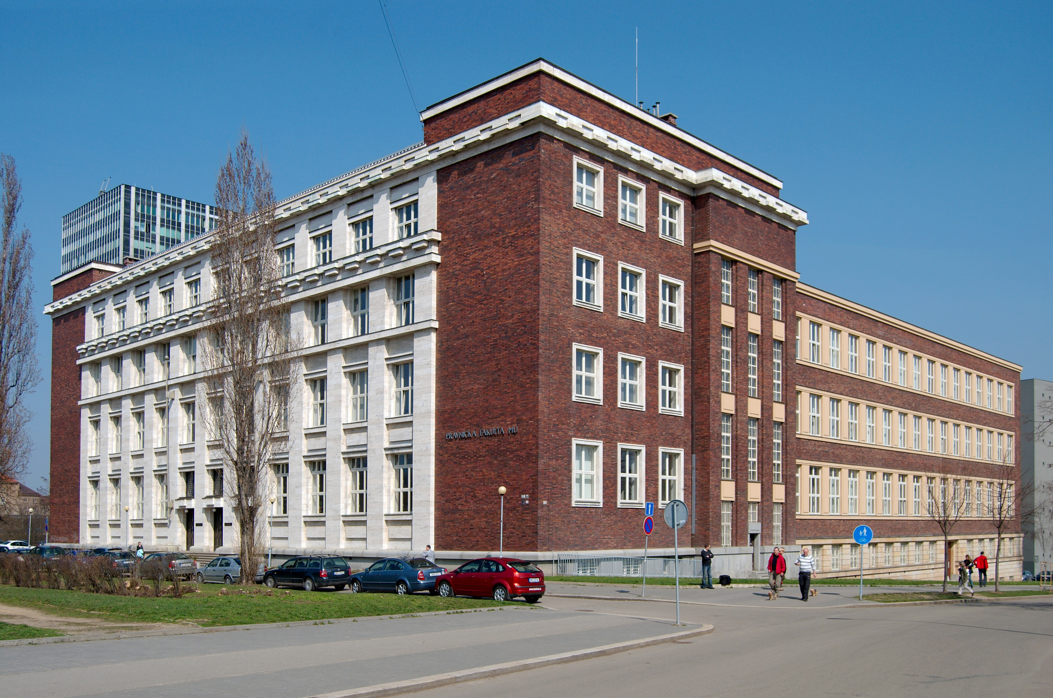 Brno-Veveří - Faculty of Law, Masaryk University